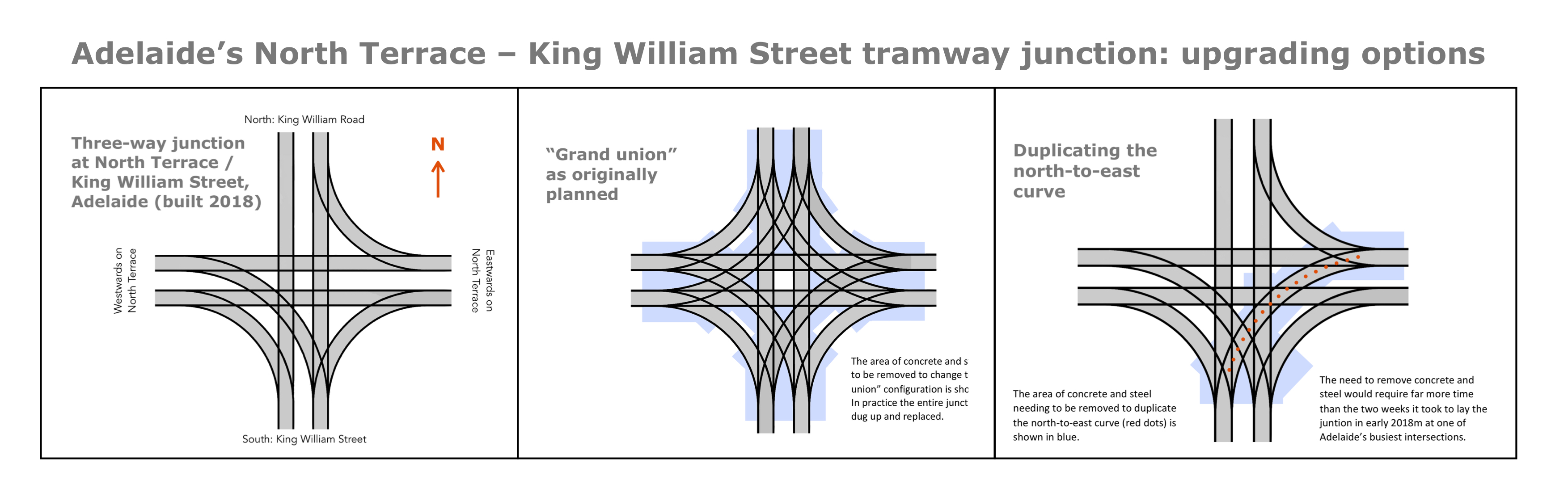 A diagram illustrating the difference between a 4-way double-track tramway intersection ("grand union", centre), as originally proposed for Adelaide's King William Street – North Terrace intersection; (left) the 3-way junction built in January 2018 by the Labor government of South Australia; and (right) a duplication of one route as envisaged by the ensuing Liberal government.